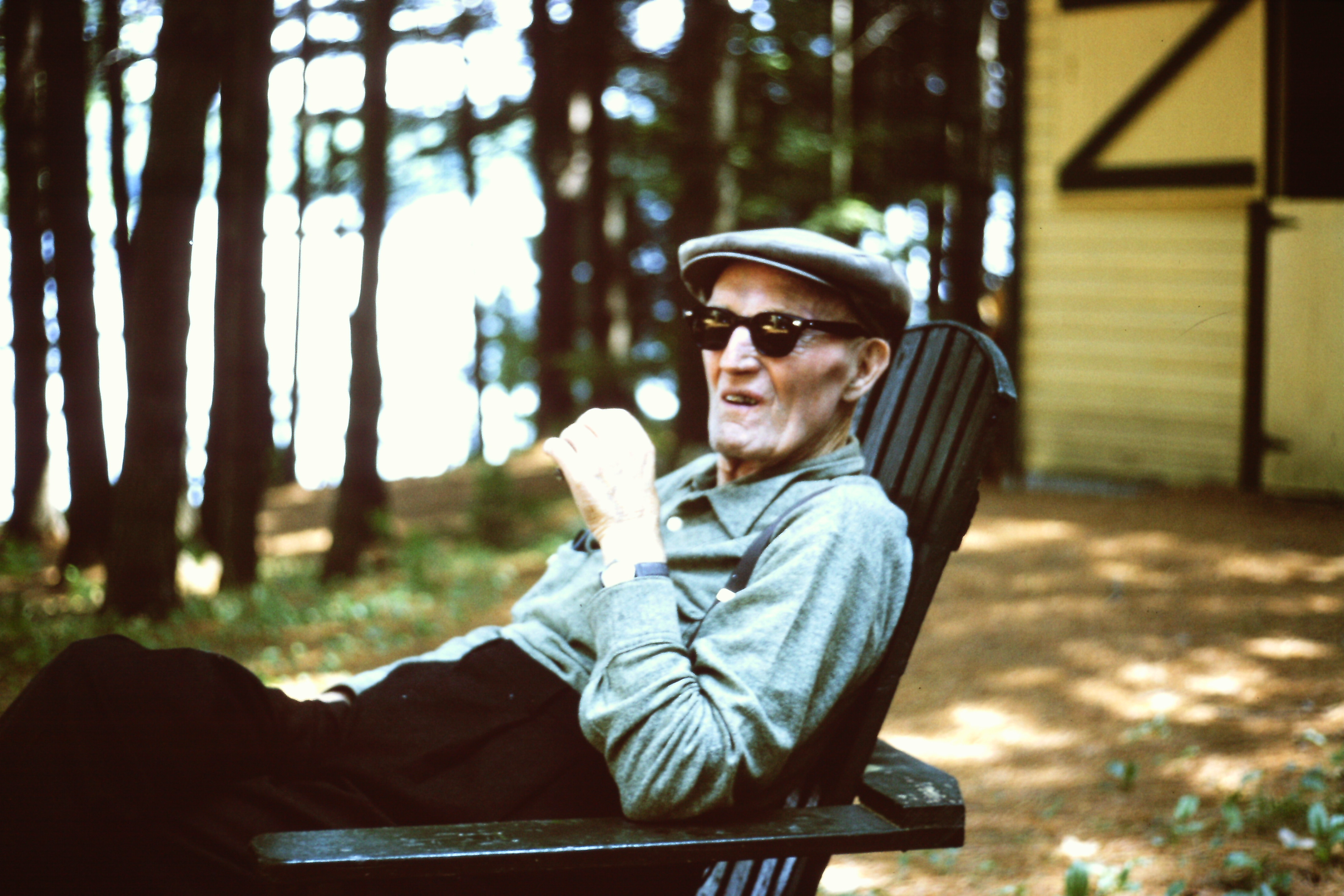 Bill Carrigan at his summer home on Annabessacook Lake, Winthrop, Maine in July 1965. Photo by Albert Turner Sr.